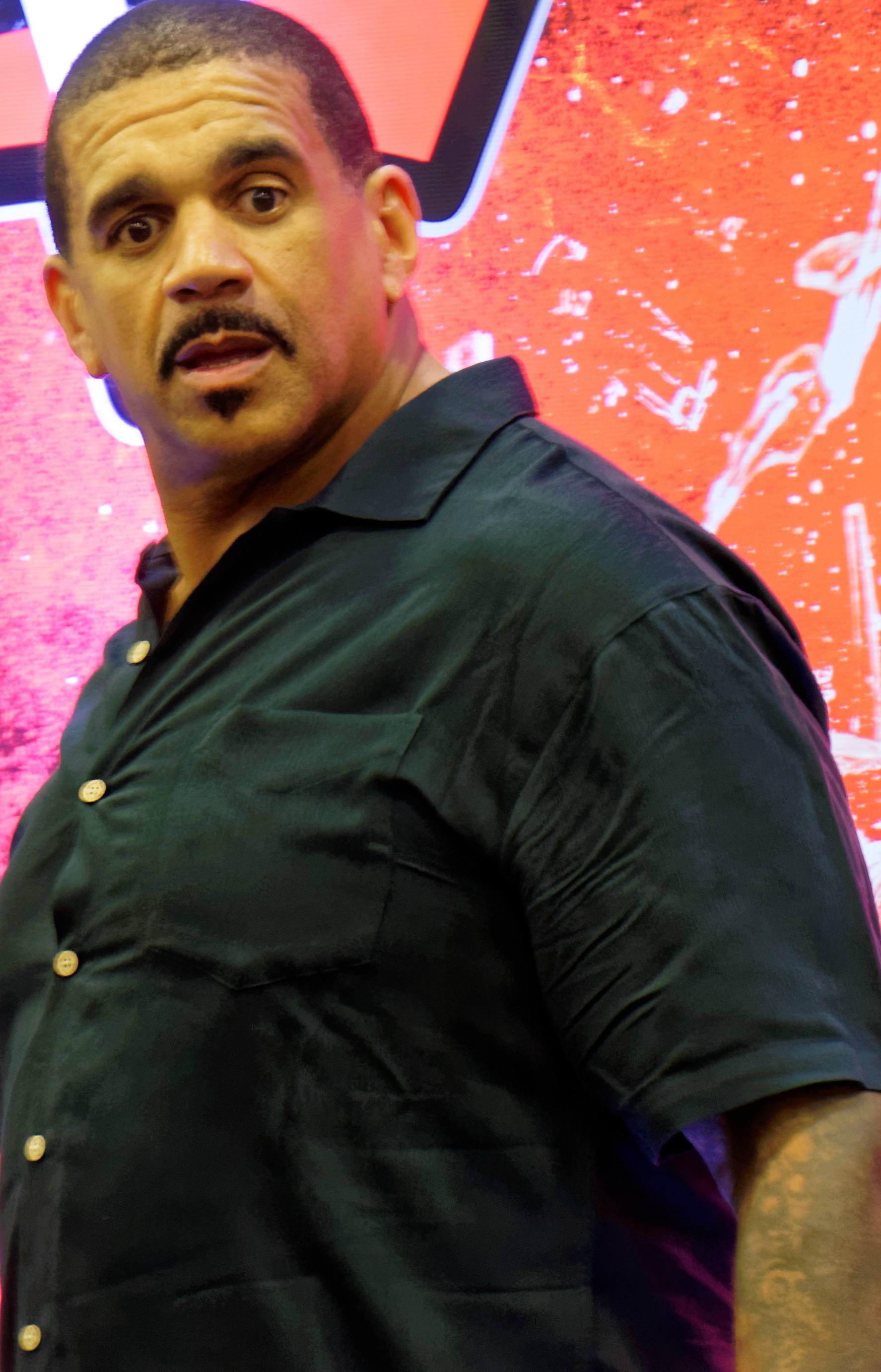 Charles Wright AKA. The Godfather during the WrestleMania 32 Axxess in March 31, 2016.